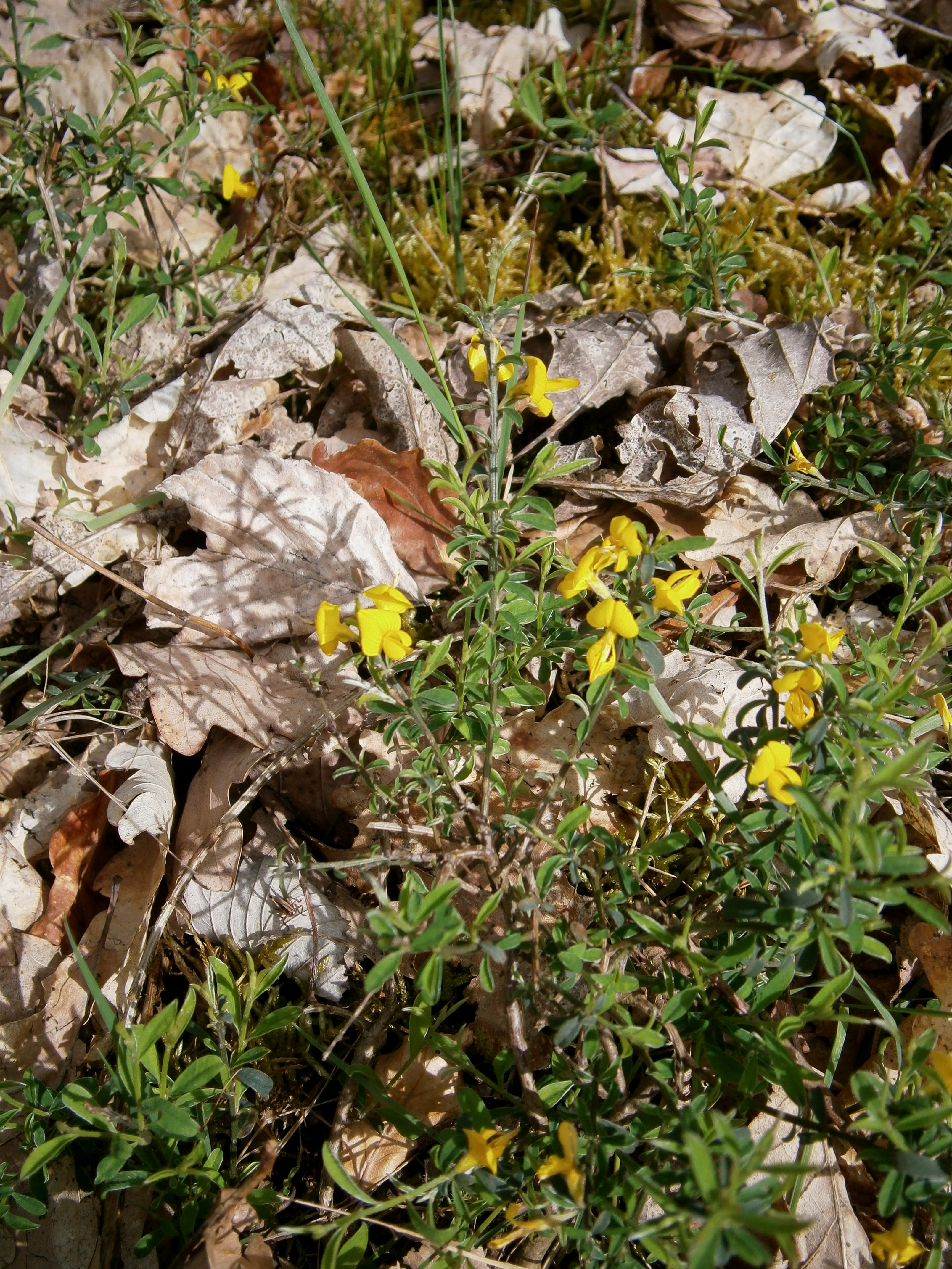 Genista pilosa